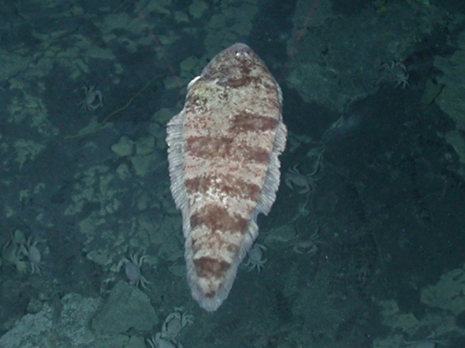 Symphurus thermophilus (cropped from original to focus more on the fish)